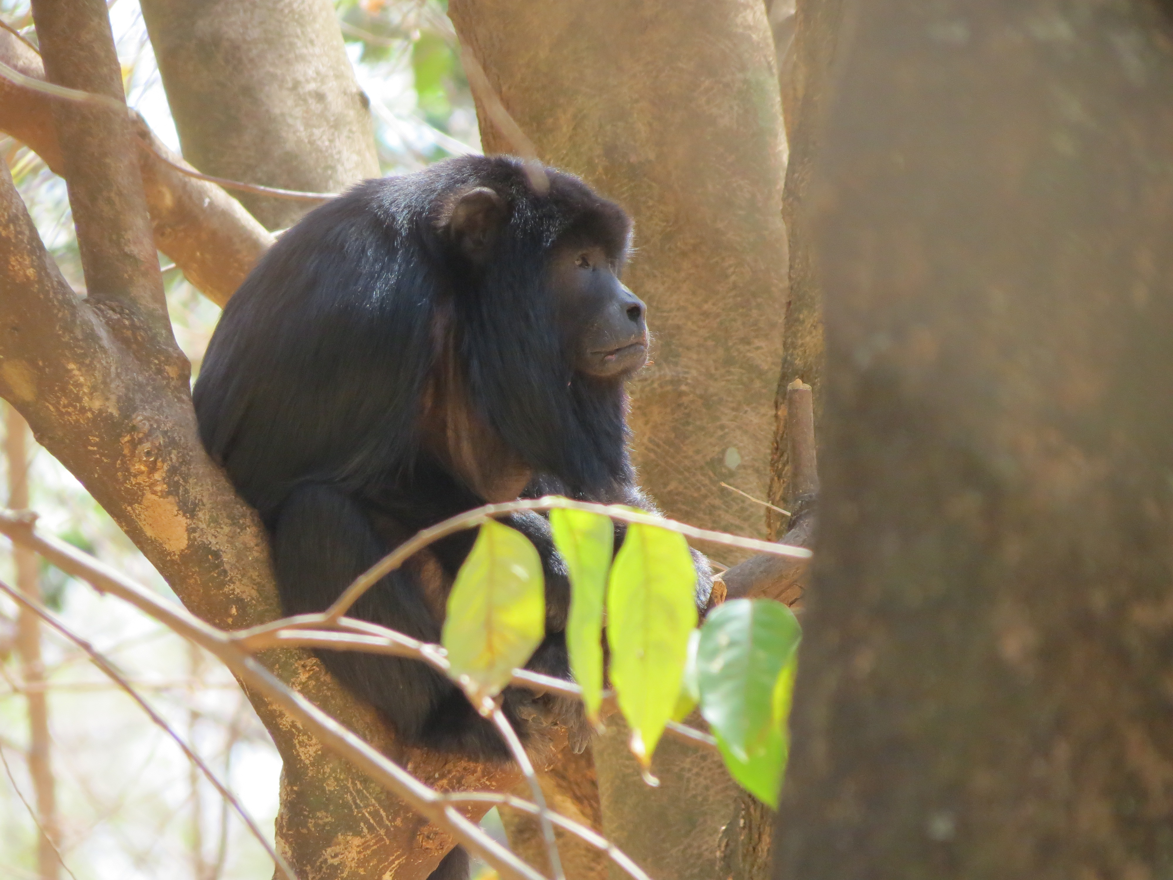 Male black howler monkey in a semidecidous forest remnant in Ilha Solteira, Brazil.